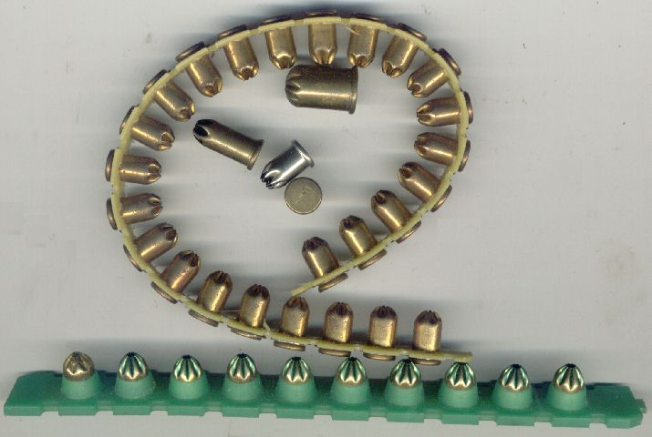 blank (cartridge) scan, upload MH 15:52, 2005 Jan 21 (UTC)